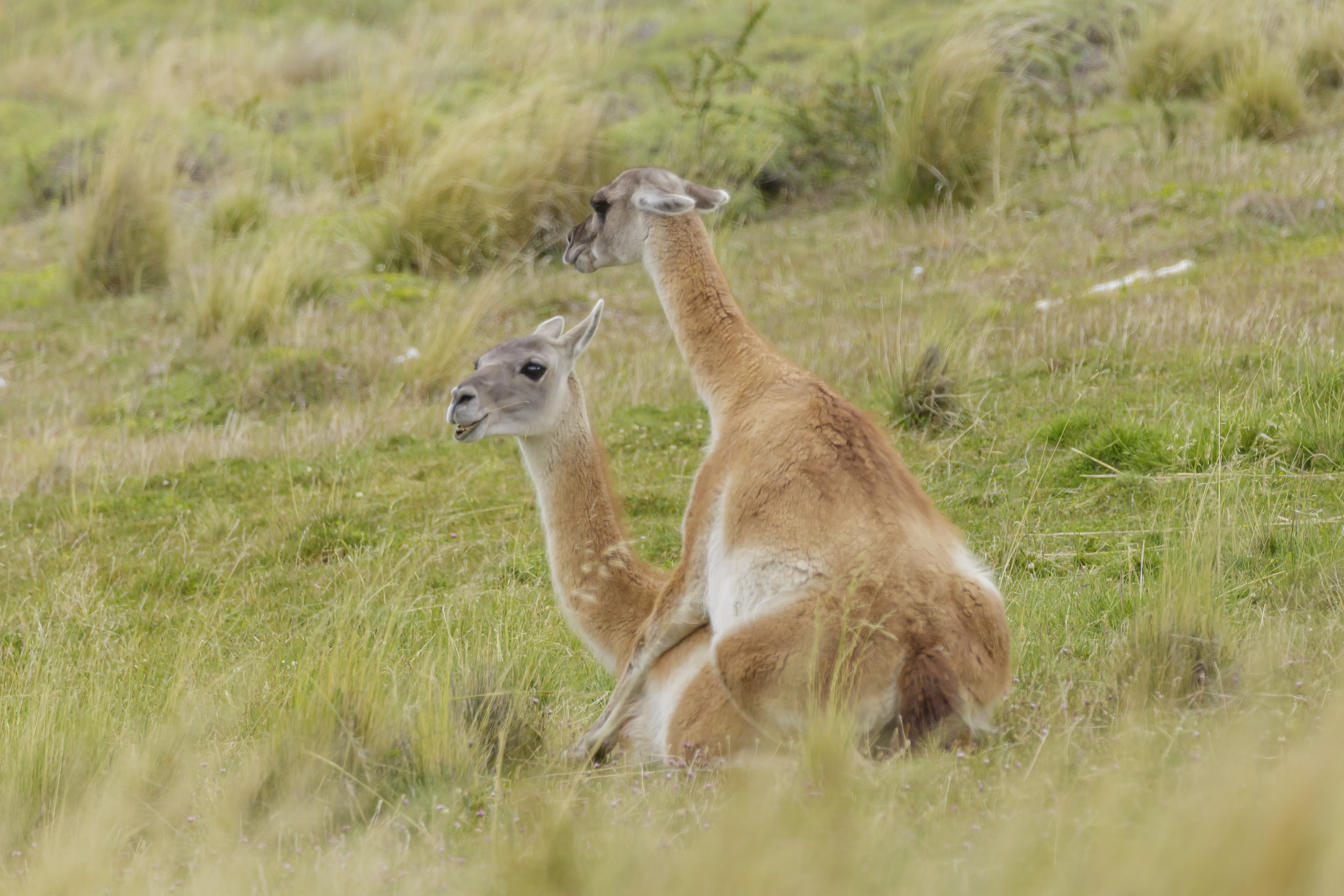 PanAmericana 2017 - the image was taken on an overlanding travel from Ushuaia to Anchorage - taken by Thomas Fuhrmann, SnowmanStudios - see more pictures on / mehr Aufnahmen auf